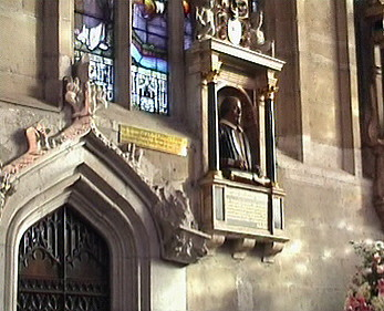 Stratford Holy Trinity Church